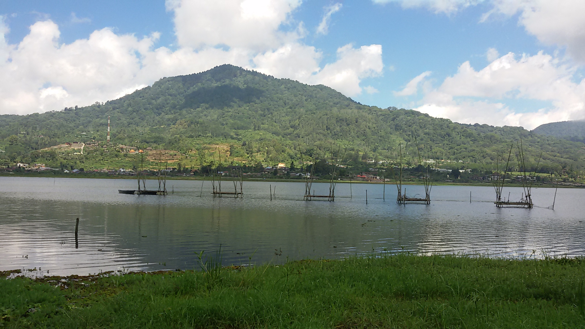 Traditional fish cages at Bratan Lake, Bedugul